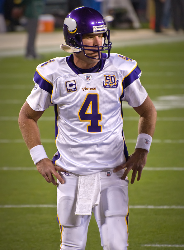 Lambeau Field, October 24, 2010. Photo by Mike Morbeck.